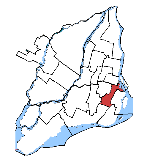 Map of the Westmount—Ville-Marie electoral district. Based on Earl Andrew's maps, created by SimonP.